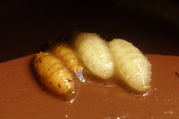 Fruit fly pupae (young - white; more mature - brown)